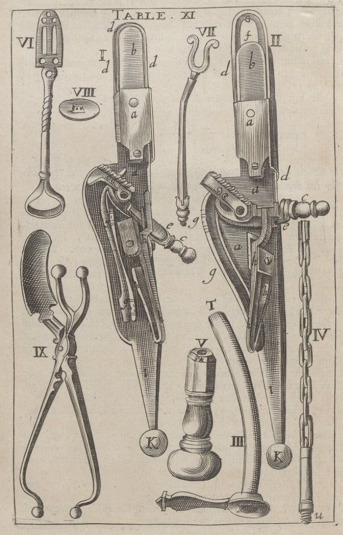 Tooth depressor (VI and IX) and others, XVIII century.